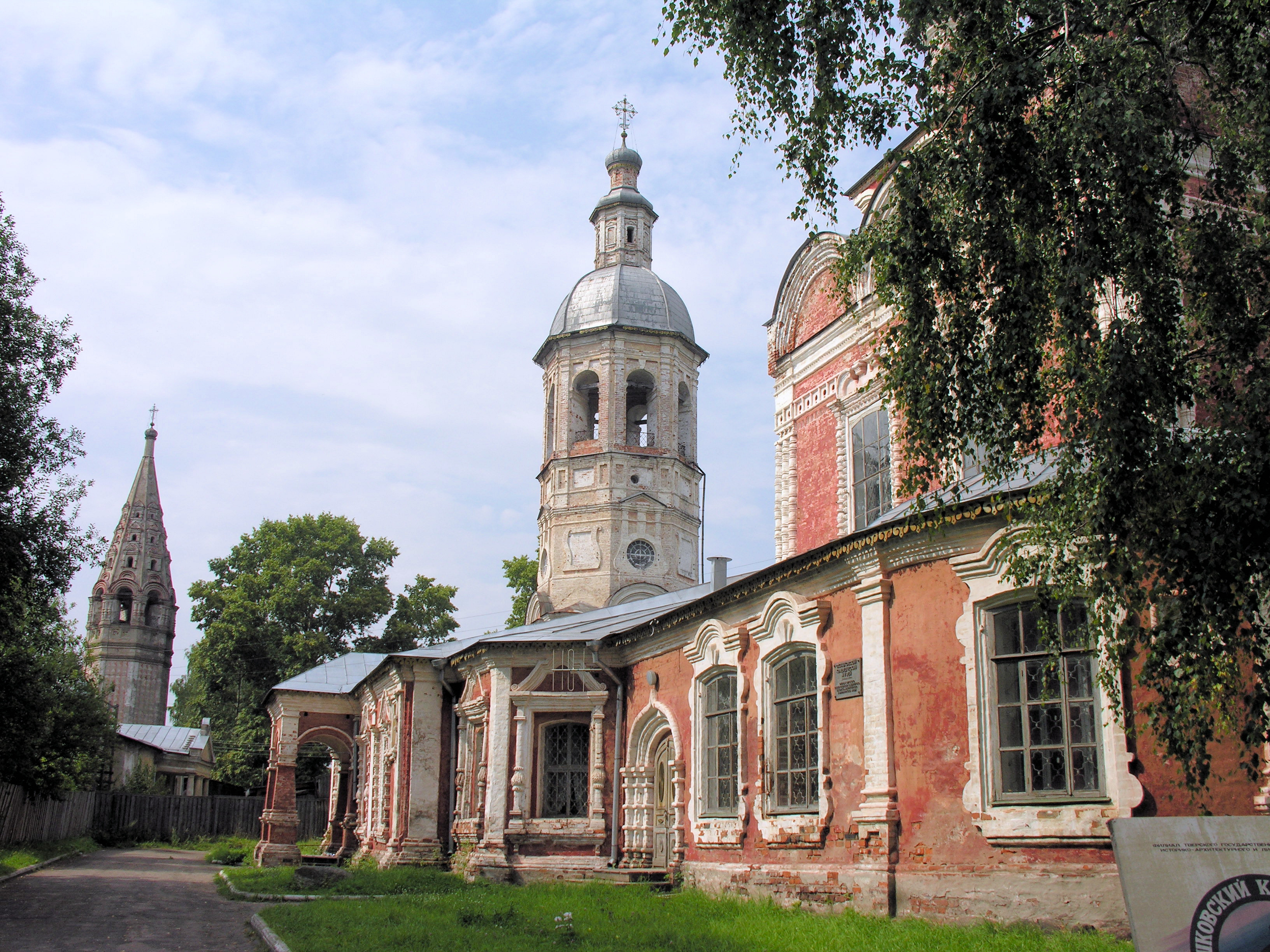 Regional Museum of Ostashkov, 2008.